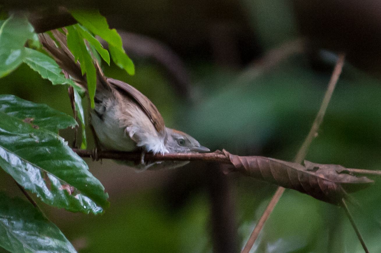 Rio Orinoco Spinetail; eastern Venezuela